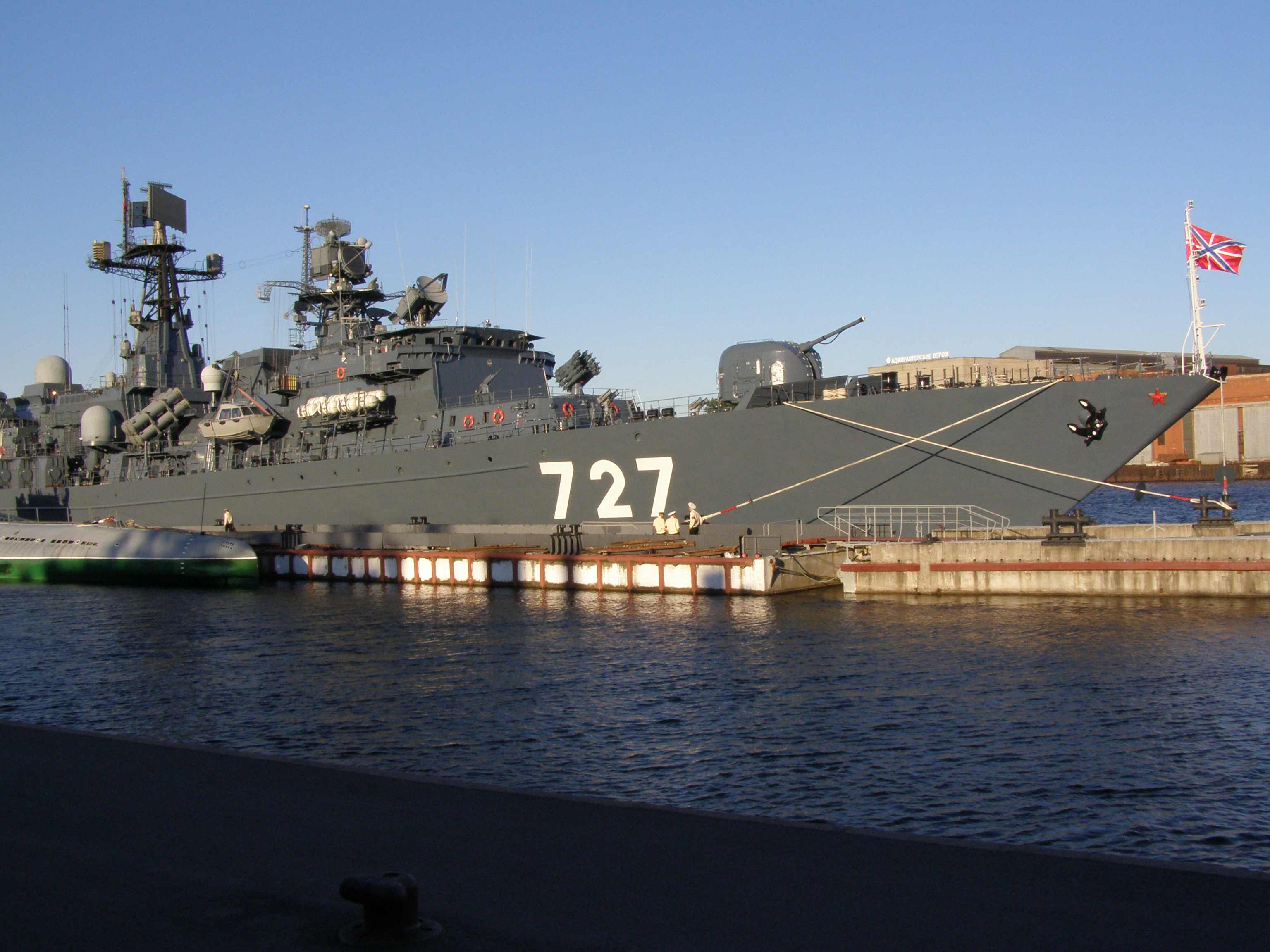 The Neustrashimy class frigate Yaroslav Mudry.